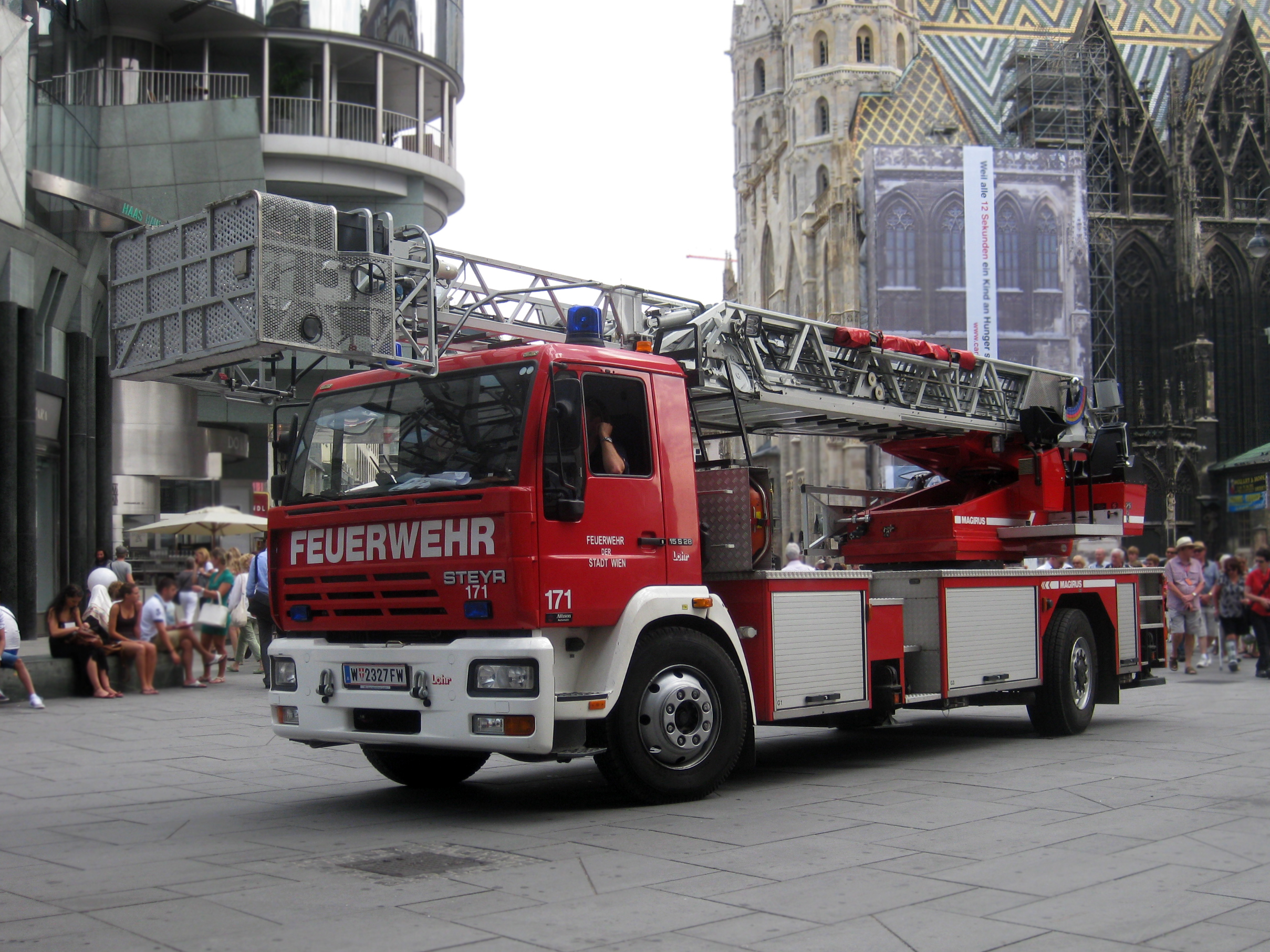 A turntable ladder car of the Vienna fire department, a Steyr 15S28. Known as the NMK, this is simply a rebadged MAN M2000